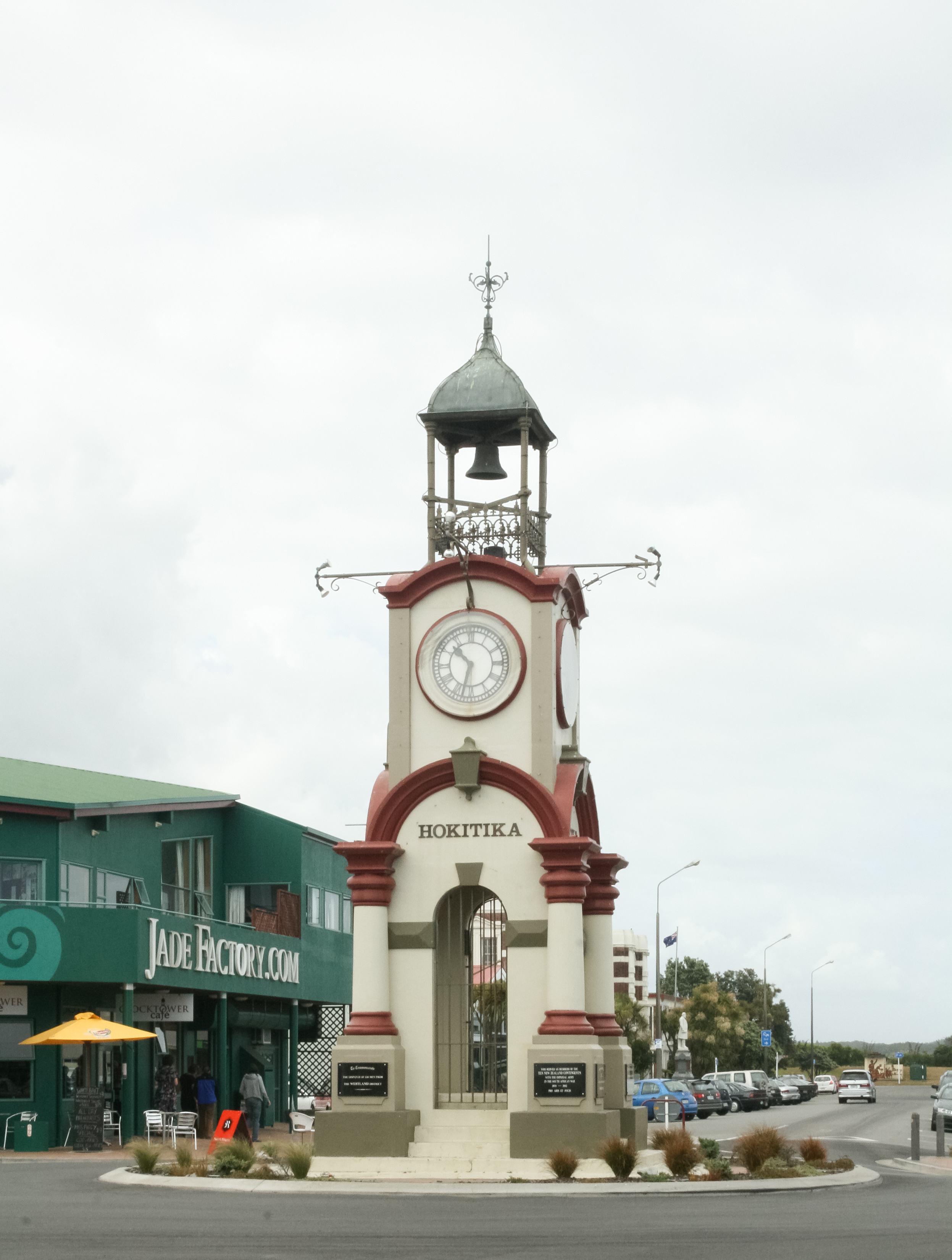 Hokitika, New Zealand